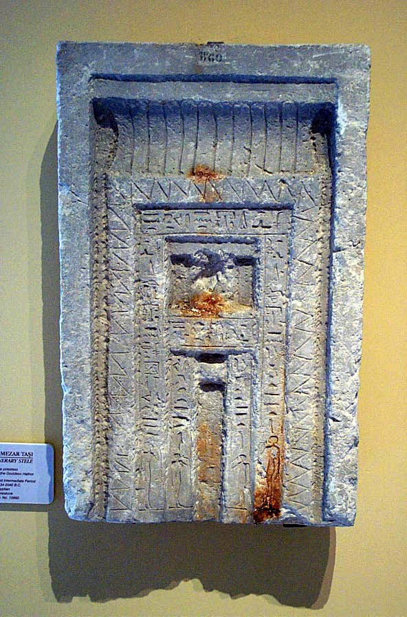 A gravestone from Ancient Egypt. In the Istanbul Archaeological Museum - Oriental pavilion. A false door from the First Intermediate Period.